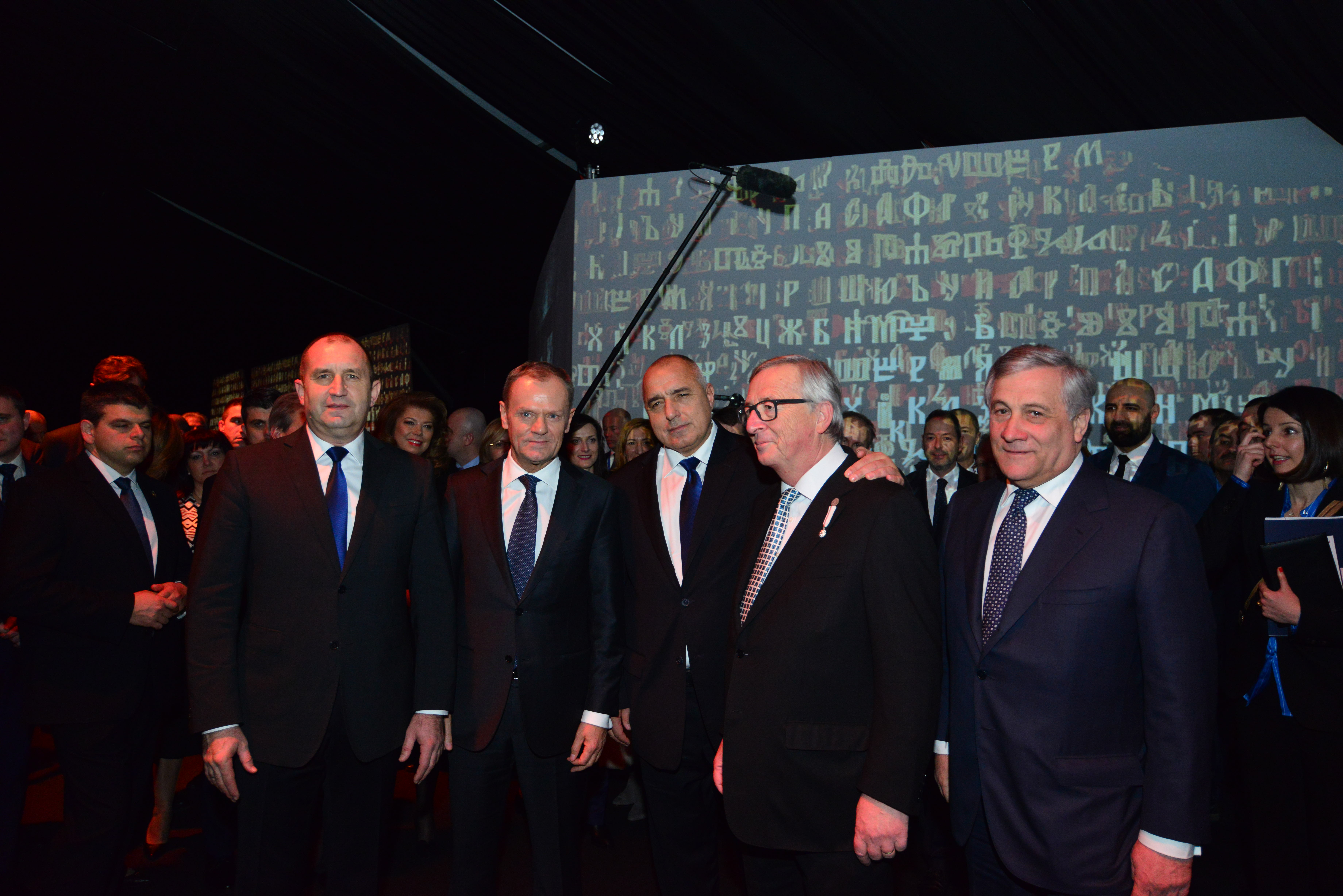 Photo: (EU2018BG)